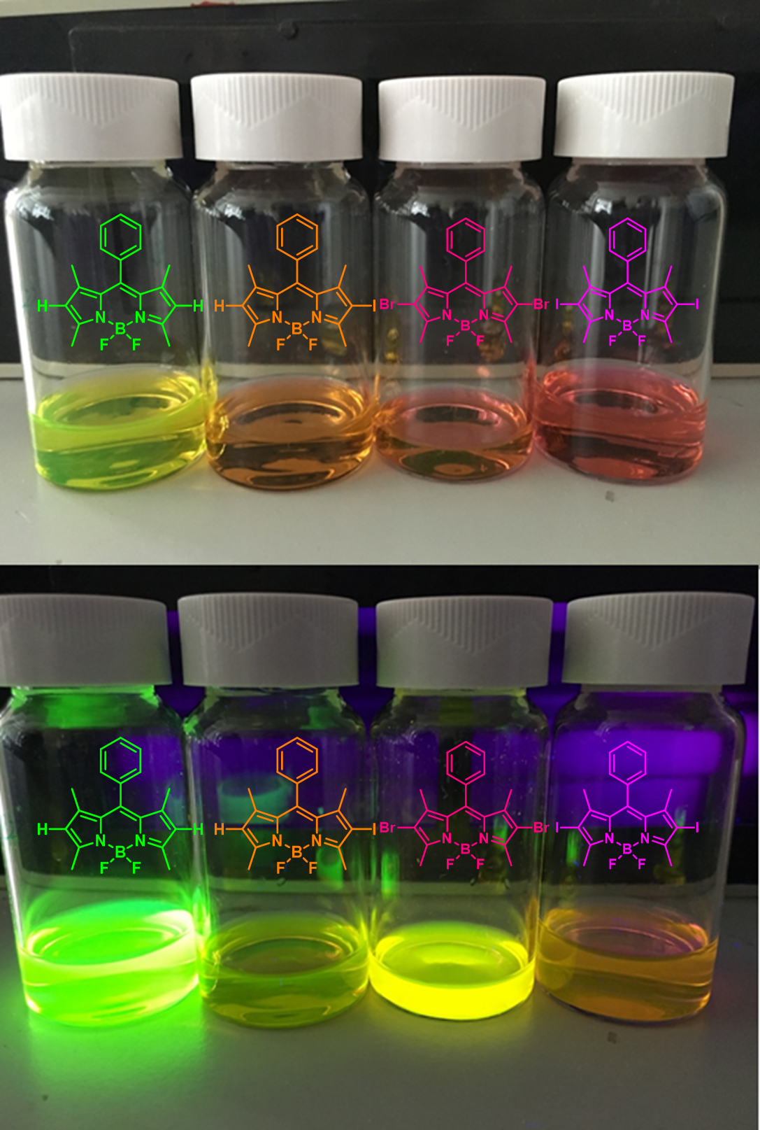 Series of halogenated BODIPY molecules in ambient lighting and fluorescing under UV